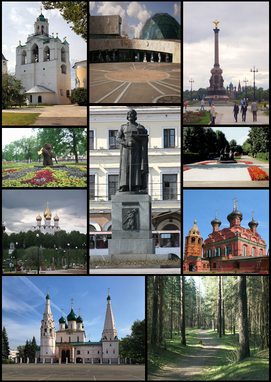 Yaroslavl in Russia, in pictures